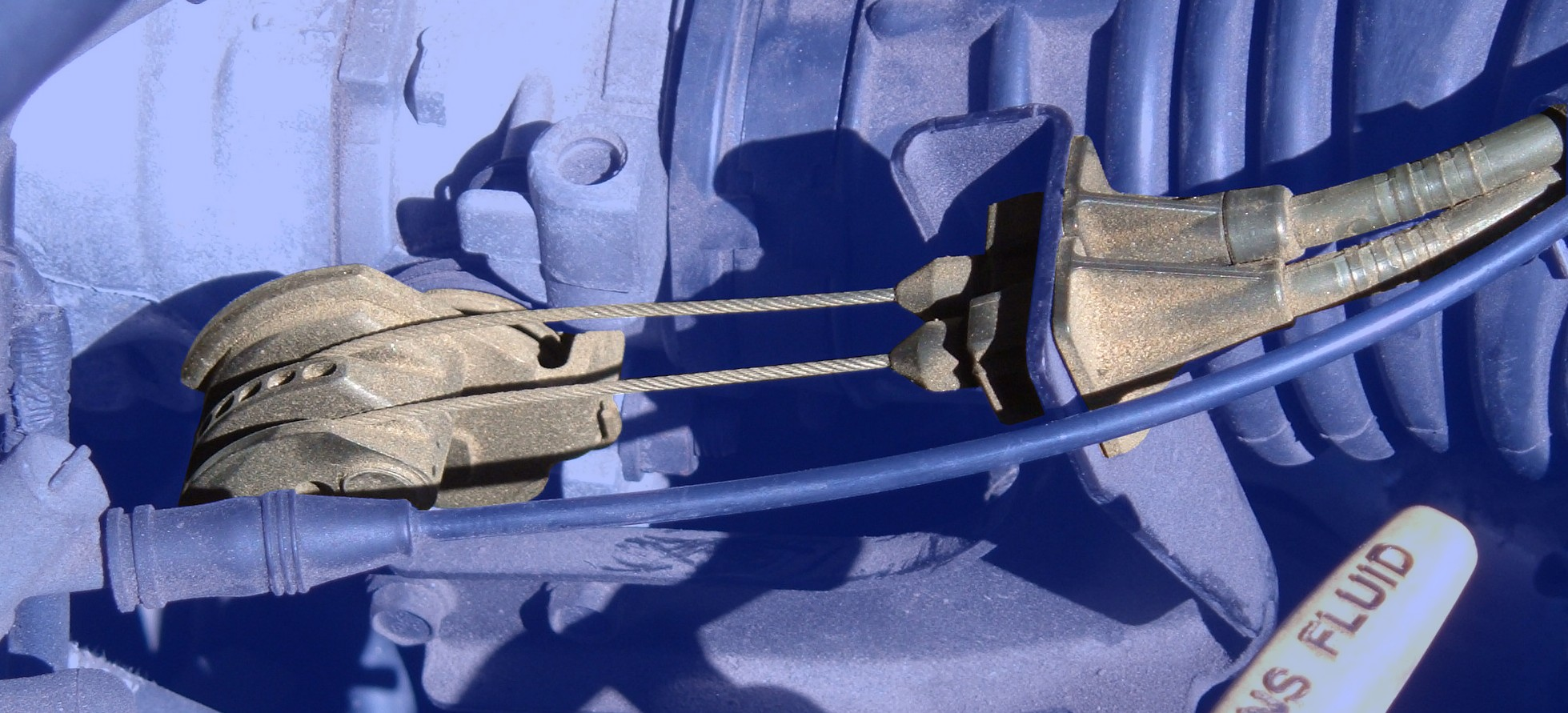 Illustration for bowden cable. Highlighted view of the throttle cables on a 1998 model Chrysler Town & Country minivan. To the best of my knowledge, one cable comes from the gas pedal and one comes from the cruise control.